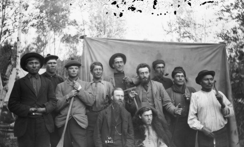 Robert Bell (centre) and party, during a Geological Survey of Canada field survey in 1883.